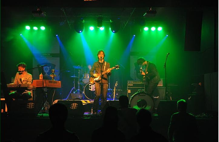 AlascA live during their performance at the final of 'De Grote Prijs van Nederland'